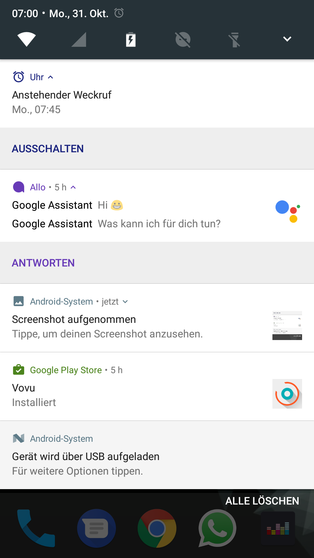 Notification center of Android 7.0 (Nougat)